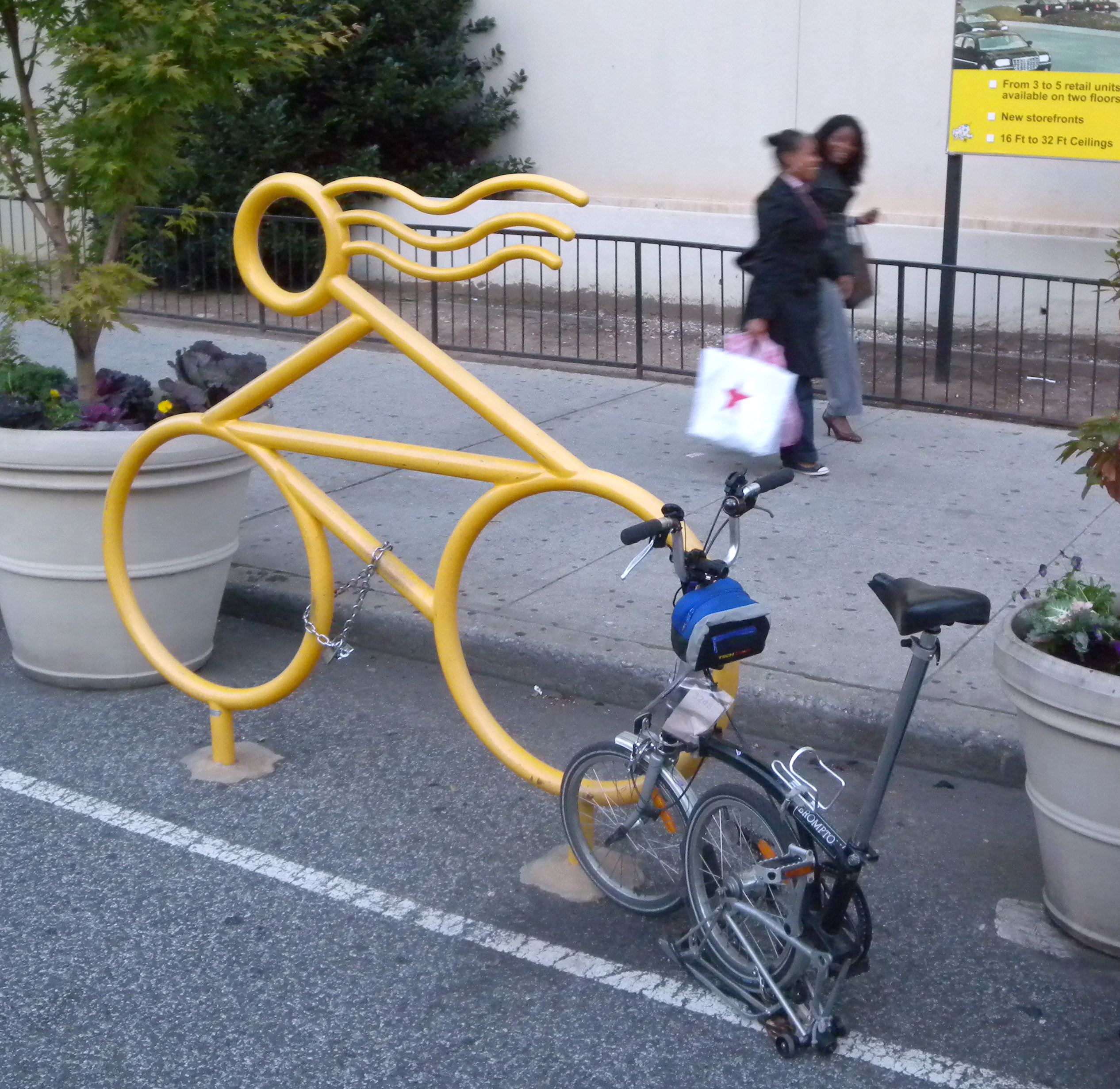 Looking northeast from Adams Street planter barrier at bike rack in evening twilight.